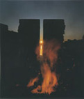 Fire, by Masao GOZU, a photograph of Gozu's windows framing the sun between the Twin Towers of the World Trade Center.